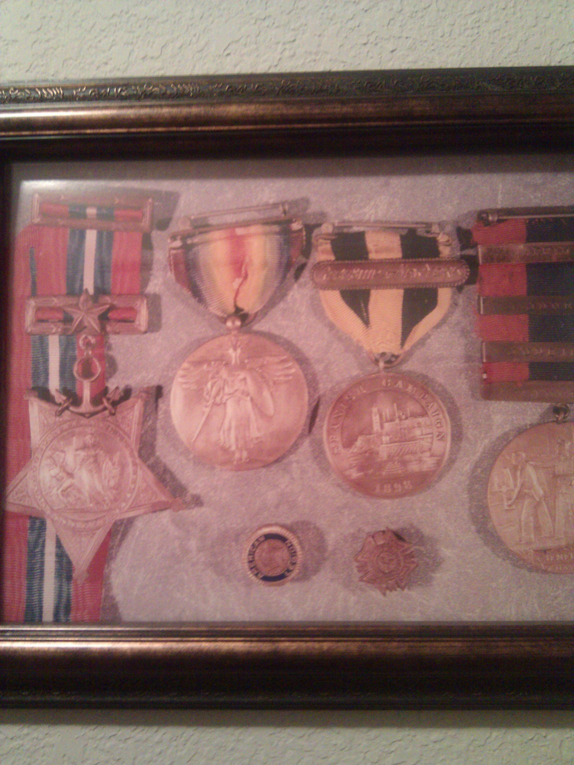 These are the medals that my great great uncle Sam was awarded. The medal on the far left is his Medal of Honor. I am the current care taker of uncle Sam's medals, and they're in my safety deposit box.